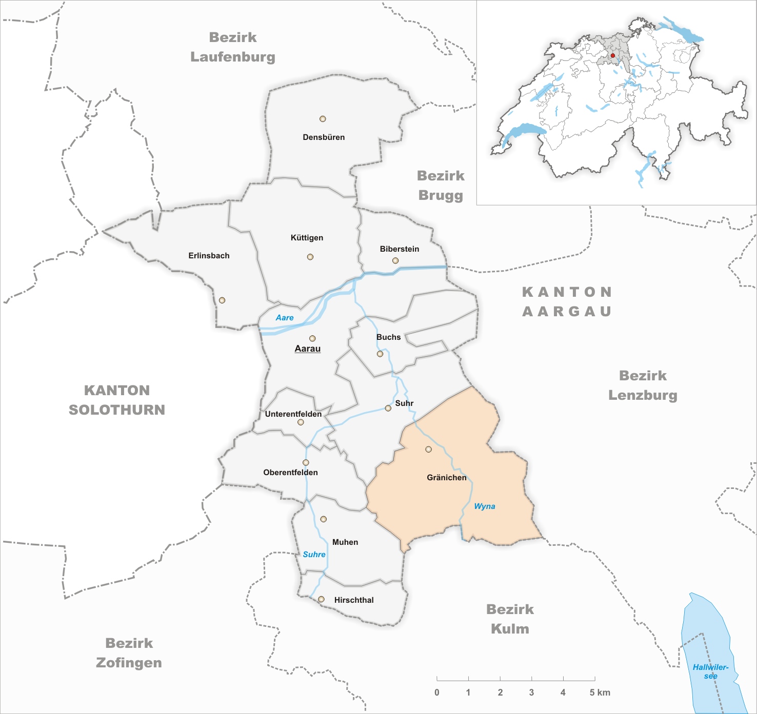 Municipality Gränichen